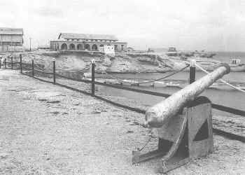 Partial view of Kamaran Island with the office of the British Civil Administrator (Commissioner after 1945) in the background. c. 1910s-1940s.